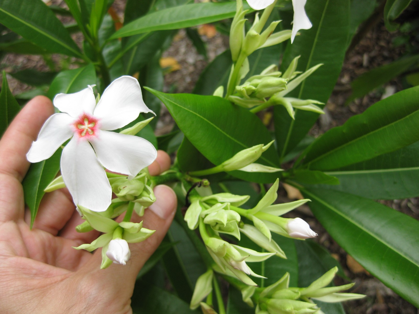 Photographed at the Royal Botanic Gardens Sydney (Australia) in January